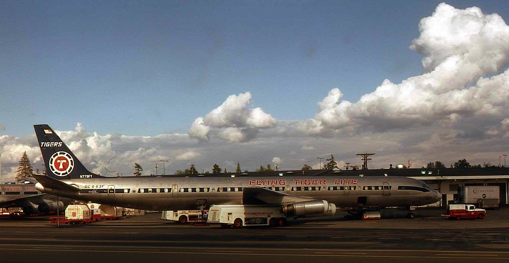 Flying Tiger Line DC-8 63F N779FT c/n 45989, taken at Seattle-Tacoma International Airport in 1972, was the first of 18 DC-8 63F delivered to the airline from June, 28, 1968.